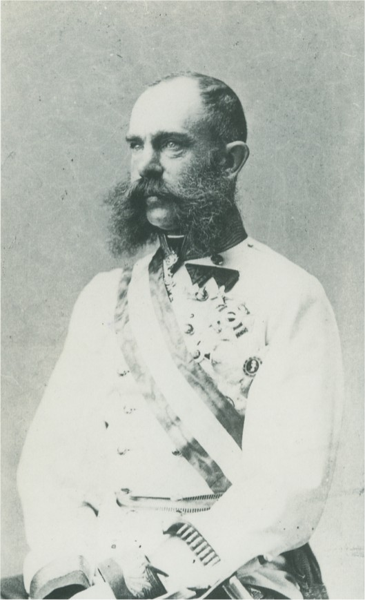 Emperor Francis Joseph I. of Austria in the uniform of an austrian field marshall